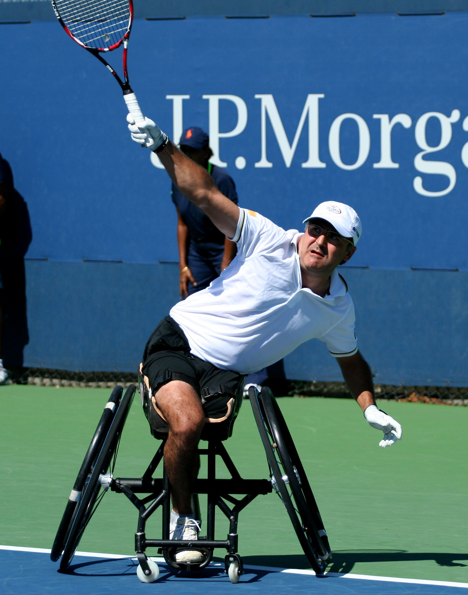 U.S. Open Wheelchair Friday, Sept. 9, 2011